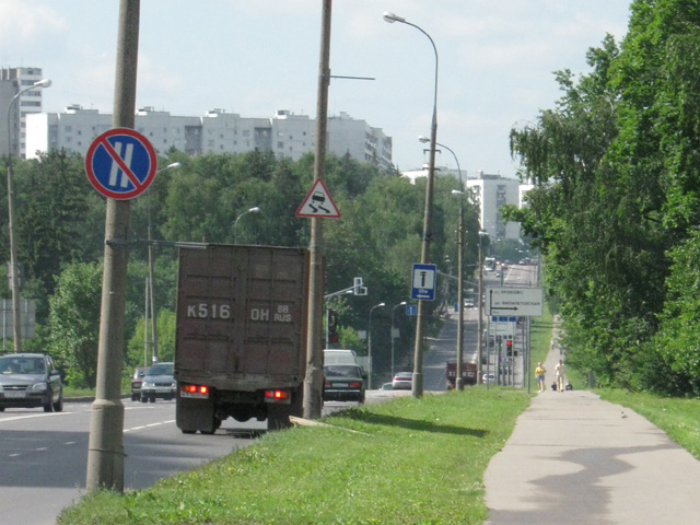 Panfilovsky Avenue